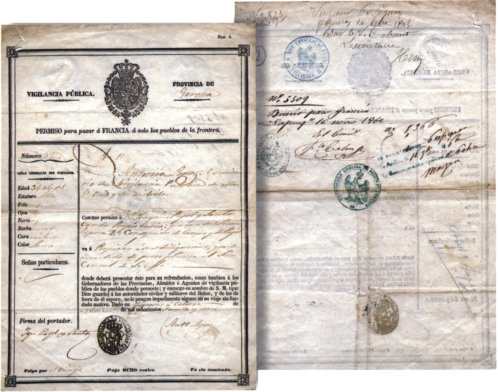 Border pass for Spanish farmers to access their fields on the Frenchs side. As agreed in the Bayonne treaties 1856 and 1862.